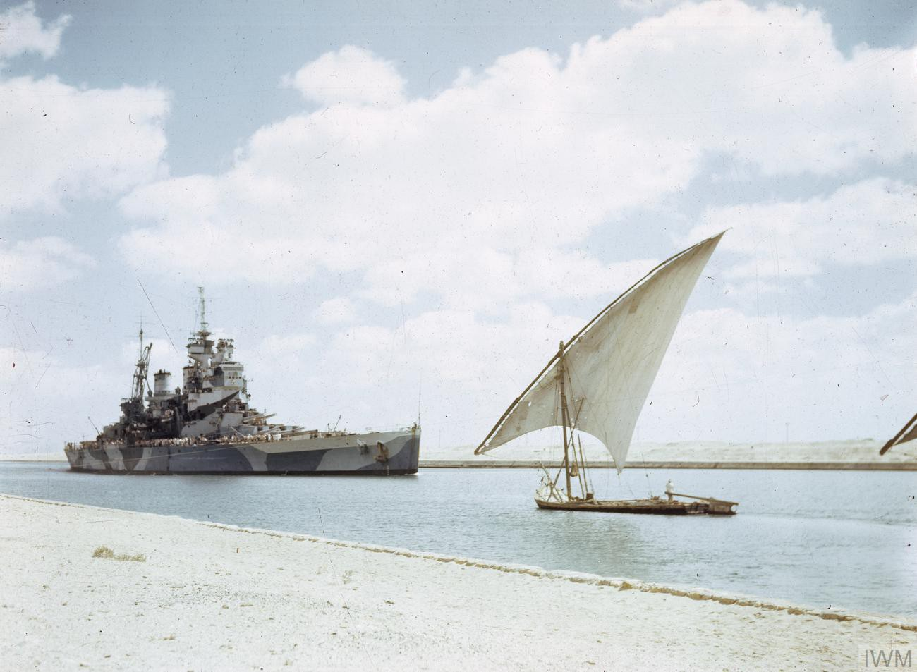 The British Battleship HMS Howe Passing Through the Suez Canal, 14 July 1944 HMS HOWE, Flagship of the Commander in Chief, Pacific Fleet, Admiral Sir Bruce Fraser, passing through the Suez Canal on her way to join the British Pacific Fleet. In the foreground is an Egyptian felucca.